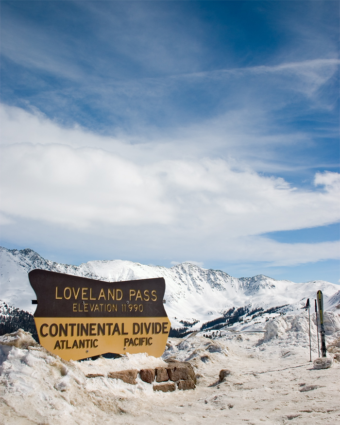 A picture of the continental divide sign found at Loveland Pass, Colorado, USA.